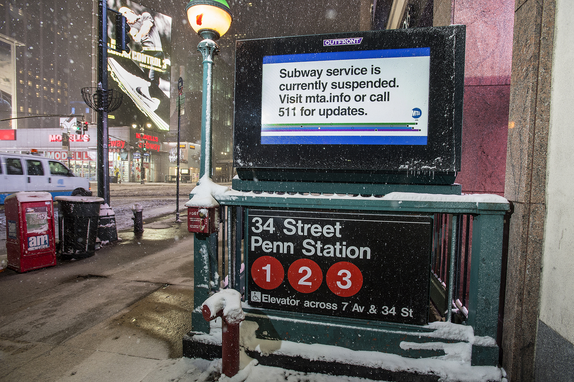 Digital screens show canceled subway service as per Governor Cuomo's travel ban due to Winter Storm Juno on January 27, 2015. Photo: Metropolitan Transportation Authority / Patrick Cashin